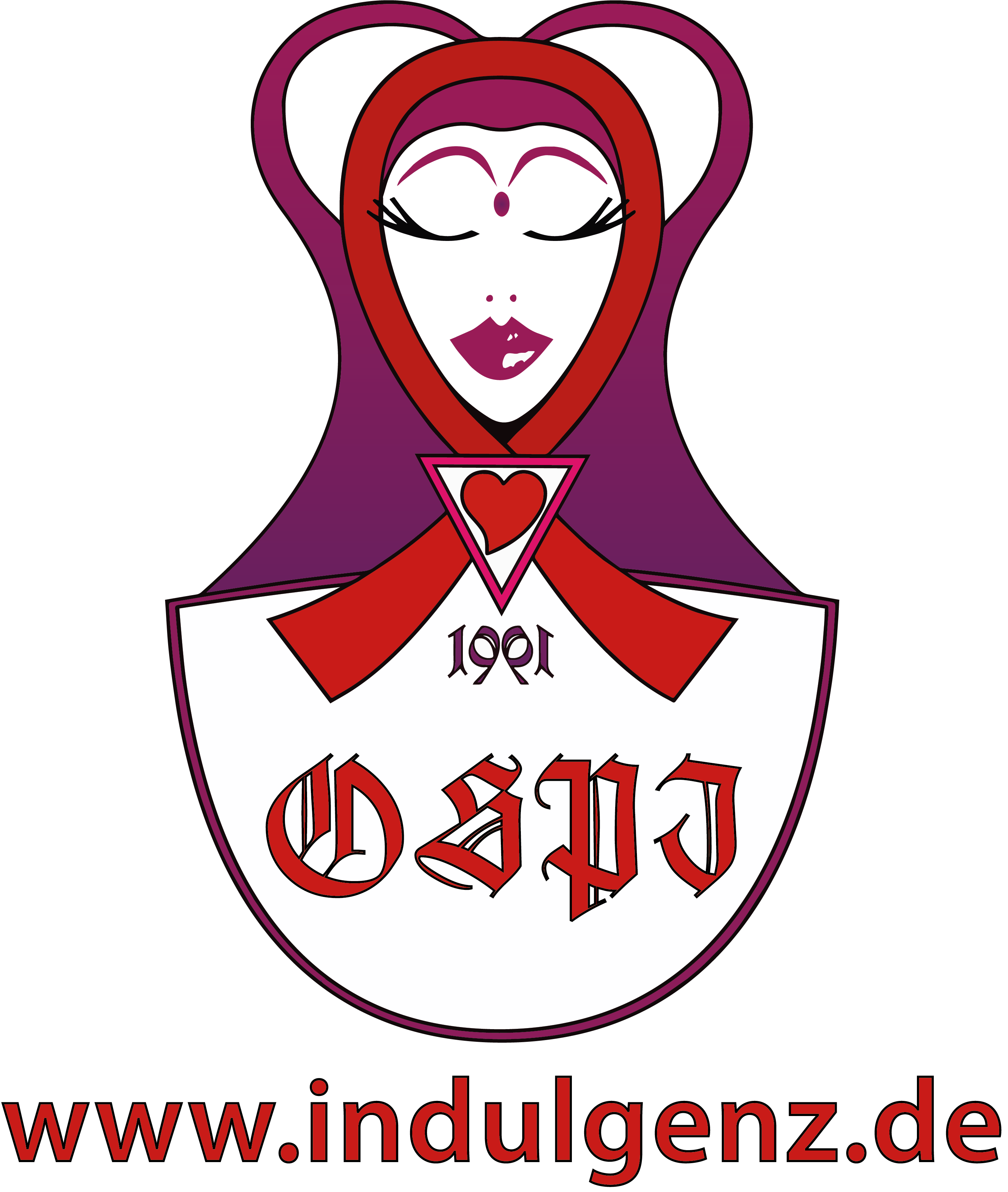 Logo of the 'Orden der Schwestern der Perpetuellen Indulgenz - Haus Sankta Melitta Iuvenis e.V.' Berlin